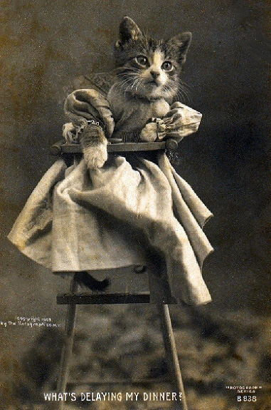 What's Delaying My Dinner postcard, 1905. Early example of a lolcat-style image.